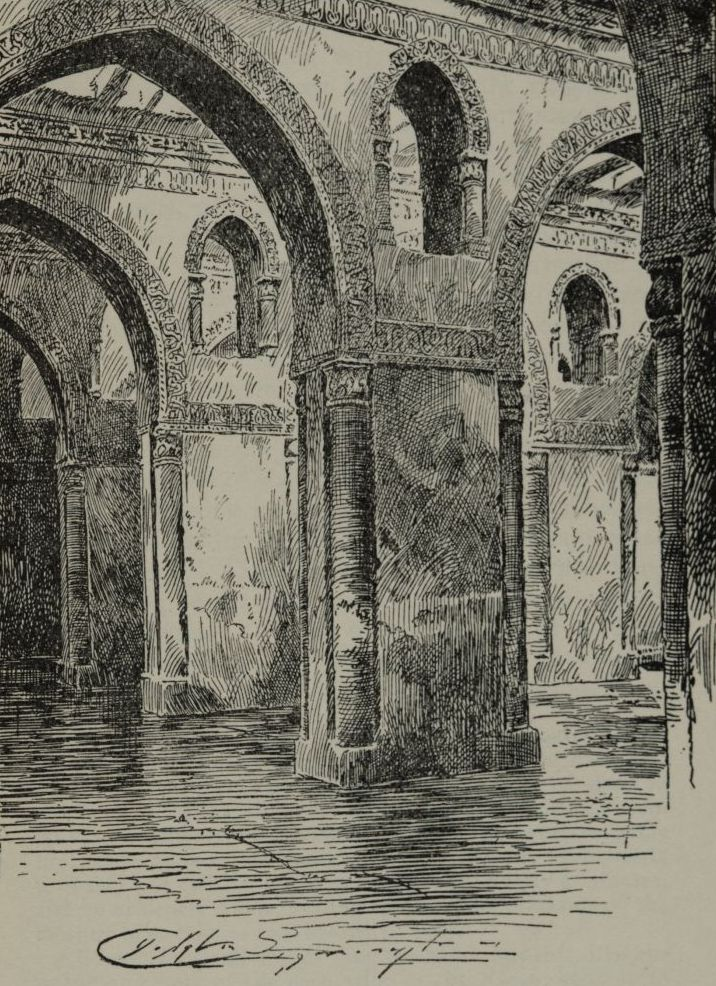 Within the Mosque of Ibn-Tulun.Interior of the mosque. Line Drawing.